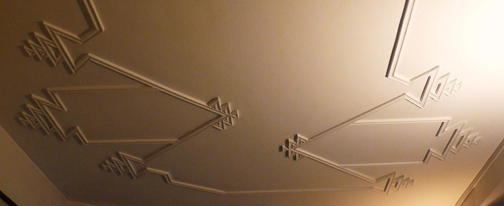 ZUS Building in Poznan (interior) - 1931.